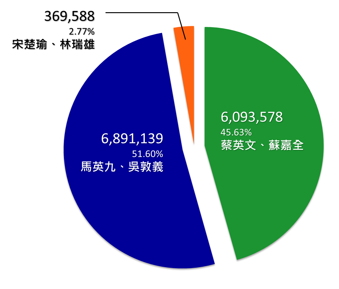 Results of Republic of China presidential election, 2012. (Pie Chart)